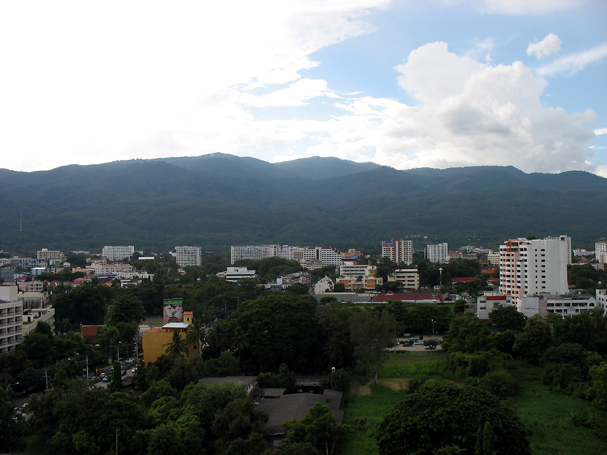 Chiang Mai - view to the western hills